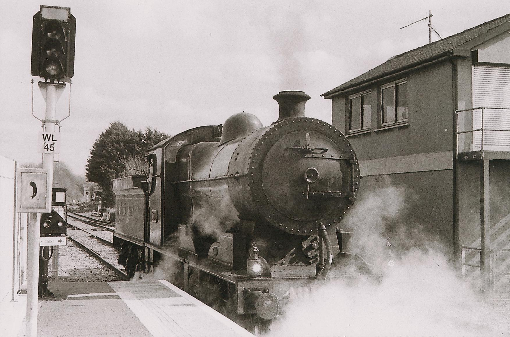 Inside cylinder 2-6-0.